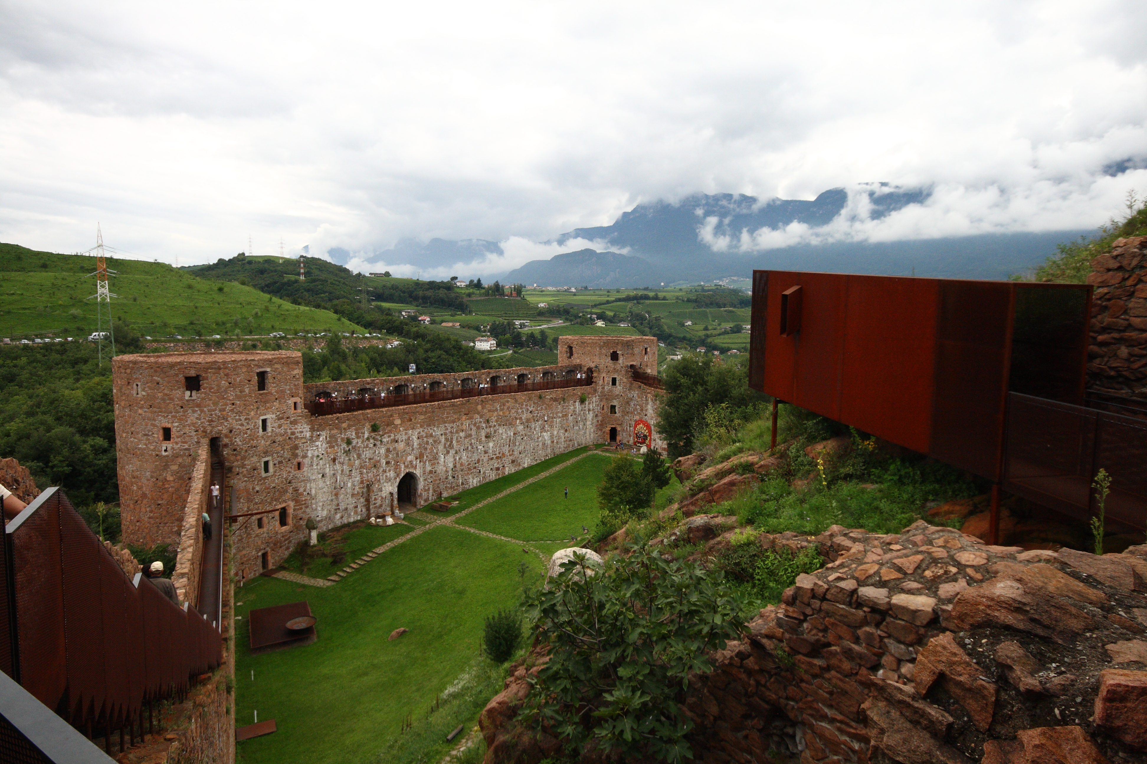 Castle Sigmundskron (Firmian), Bozen, South Tyrol